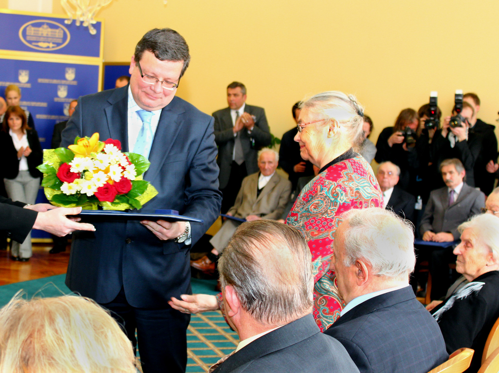 Acknowledgement of political prisoners of the Czechoslovak communist era – Alexandr Vondra and Marie Rút Křížková